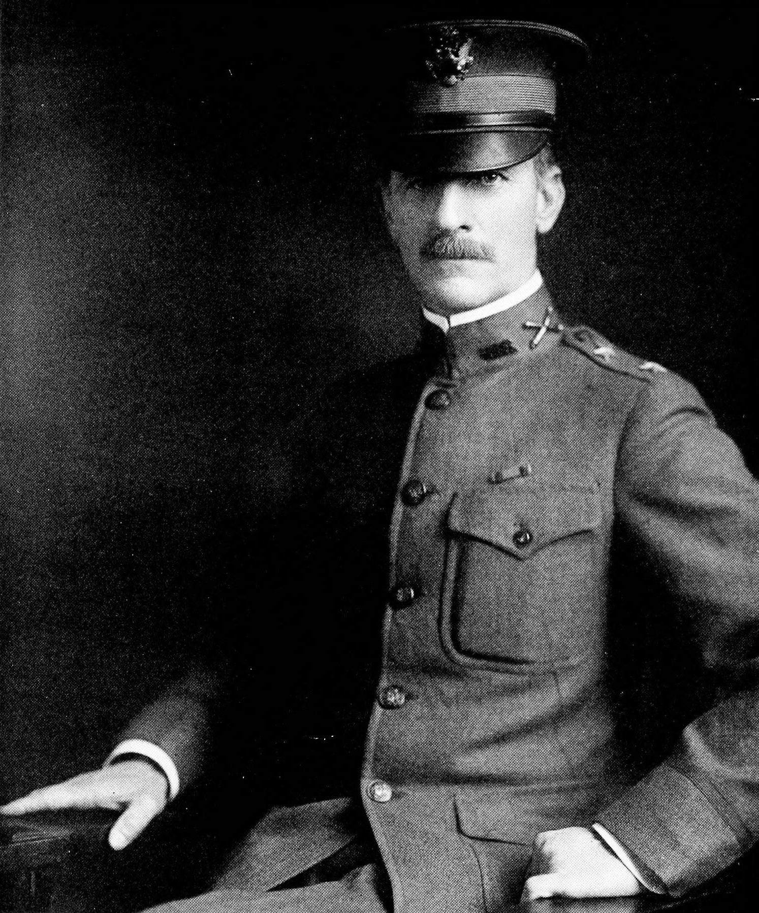 William J. Snow (US Army Major General)